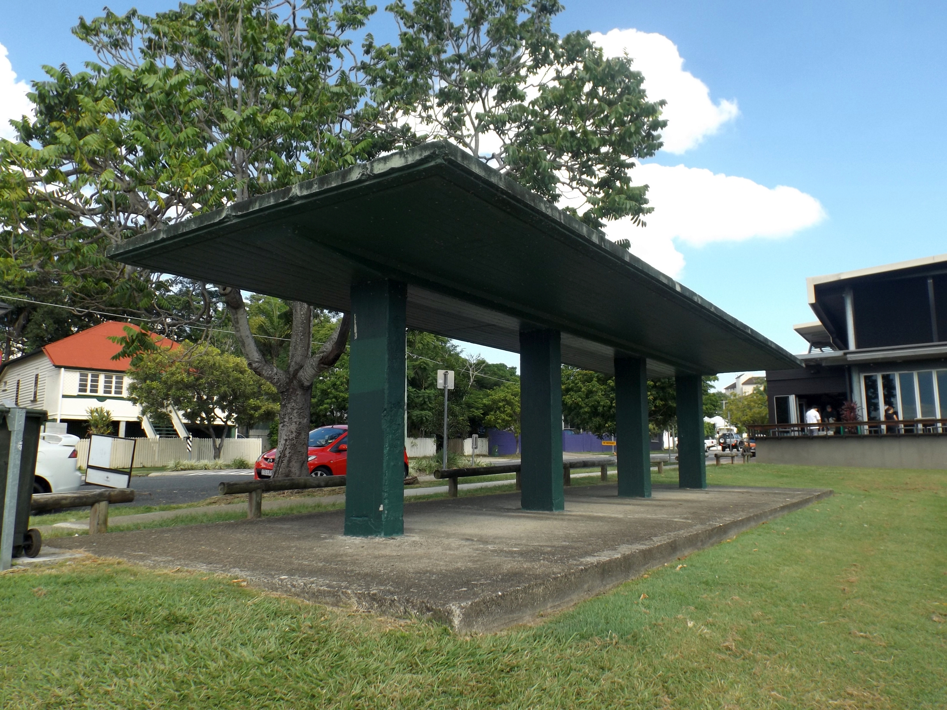 Photo of the Raymond Park (West) Air Raid Shelter at Kangaroo Point, Brisbane, Queensland, Australia.